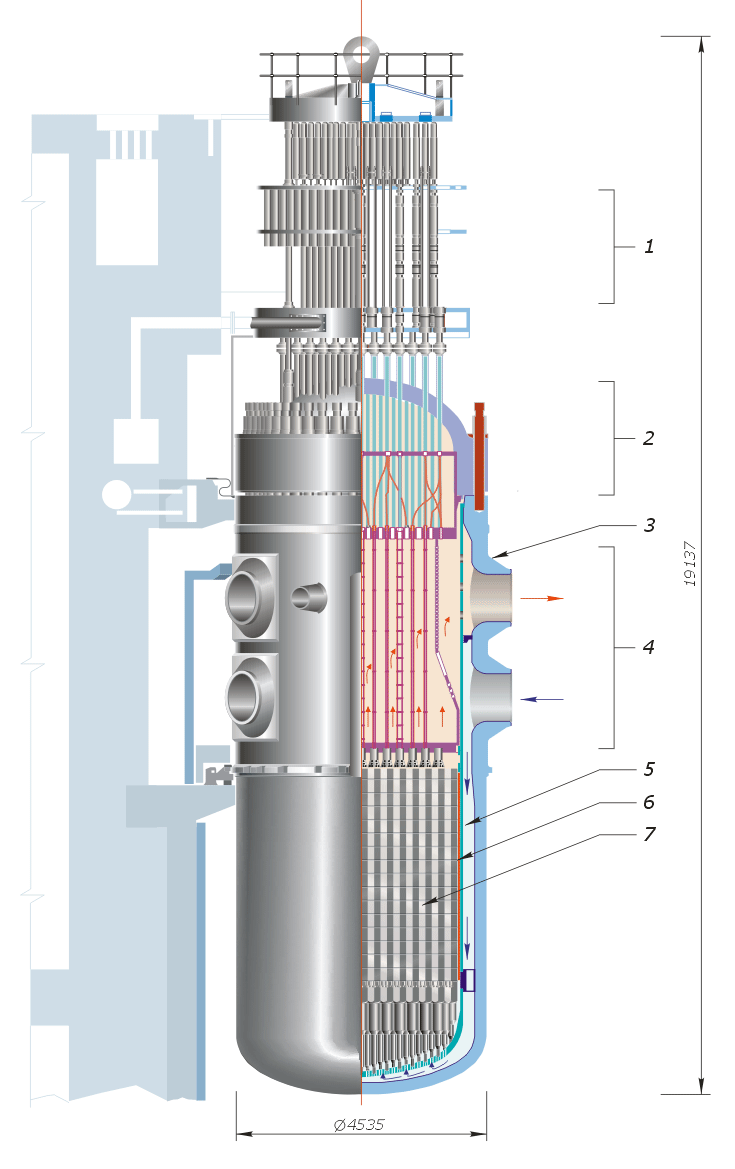 WWER-1000 (also VVER-1000 as a direct translitteration from Russian ВВЭР-1000). WWER-1000 (Water-Water Energetic Reactor, 1000 megawatt electric power) is a russian energetic nuclear reactor of PWR type